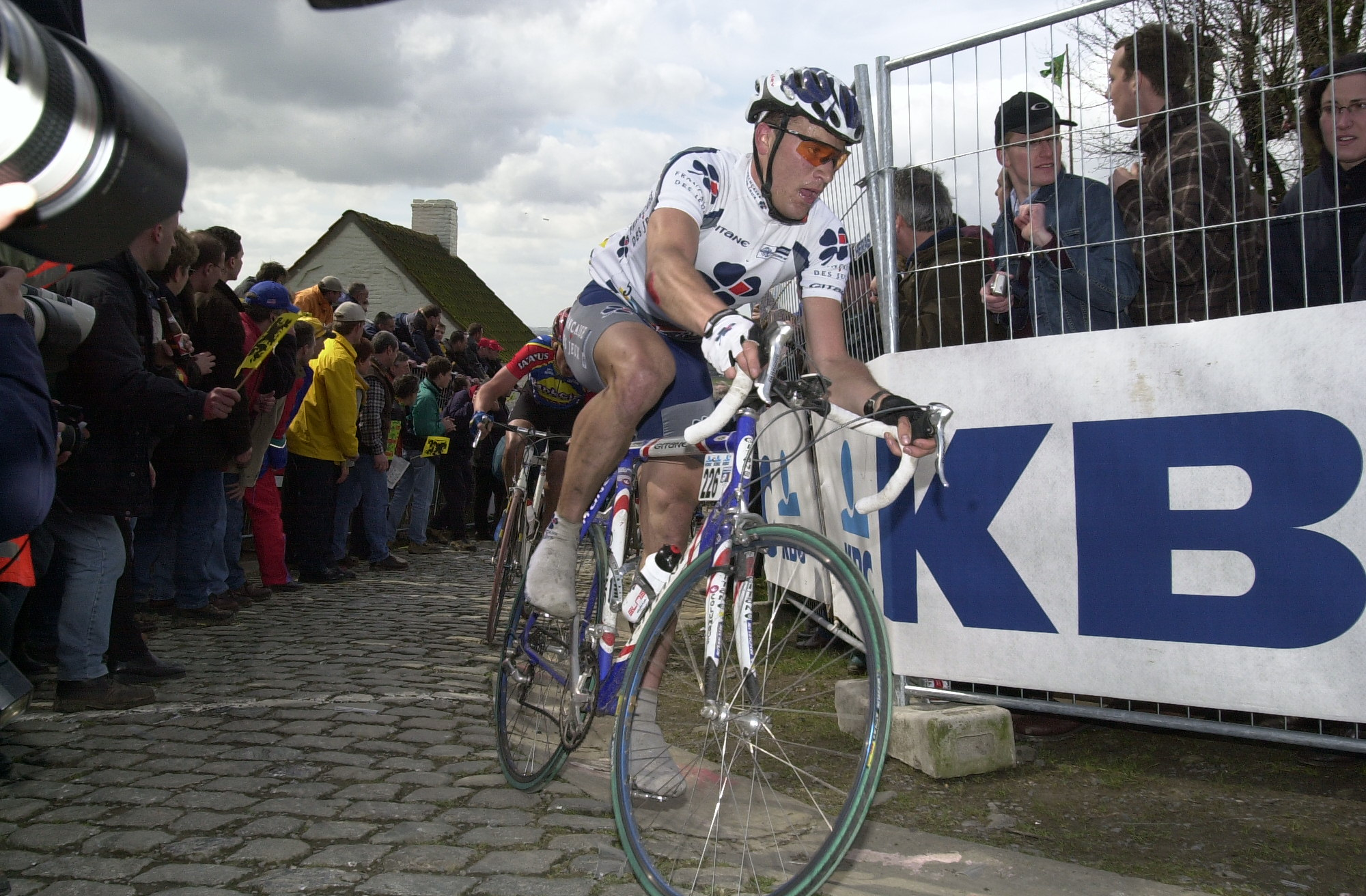 Franck Perque on Flanders Classic in 2001